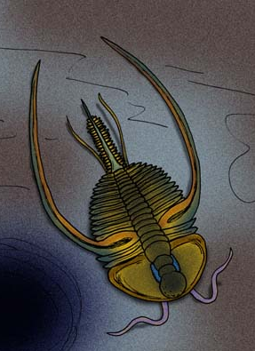 Cropped image of taxon in file name